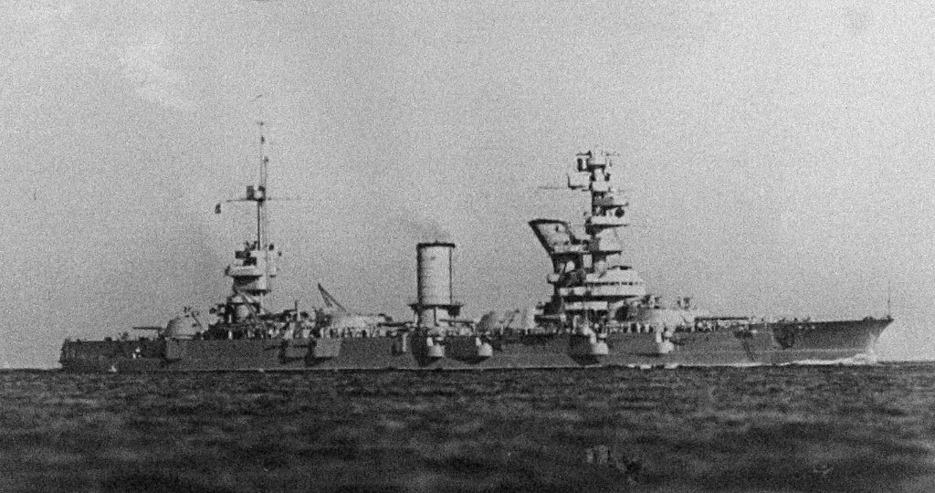 Soviet battleship Oktyabr'skaya Revolyutsiya in Kronstadt. Photographed through the periscope of a finnish submarine.